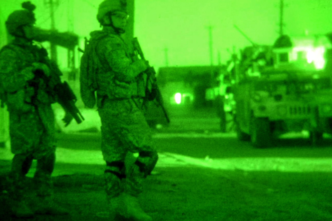 As seen through a night vision device, U.S. Army soldiers provide security at the scene of recent fighting in Al-Fadhel in eastern Baghdad, Iraq, March 28, 2009. The soldiers are assigned to the 82nd Airborne Division's 3rd Brigade Combat Team. U.S. Army photo by Staff Sgt. James Selesnick See more at Army.mil